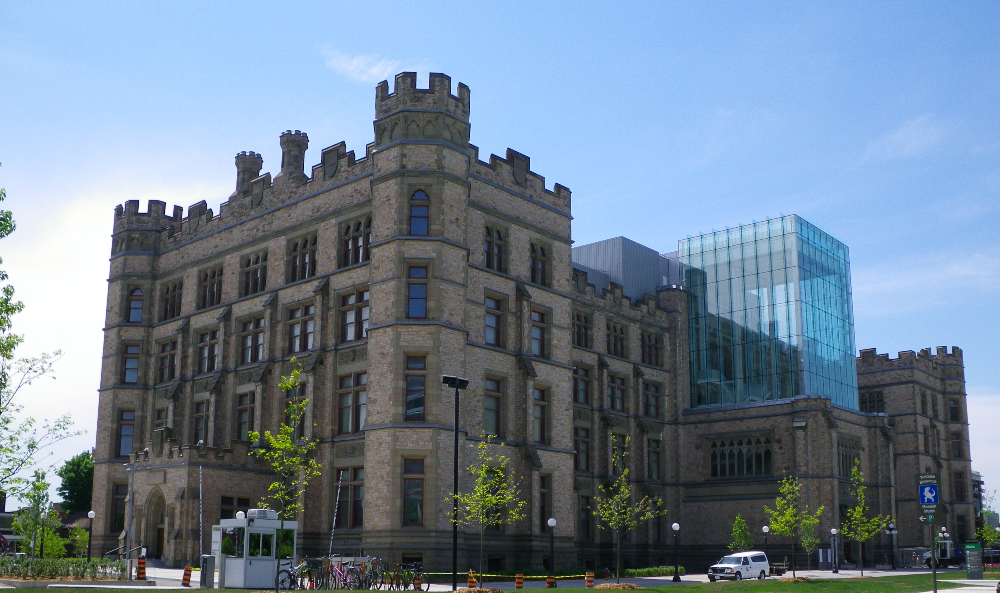 The Canadian Museum of Nature, housed in the Victoria Memorial Museum Building in Ottawa, Ontario, showing the North (front) and East faces. Taken toward the end of major renovations.